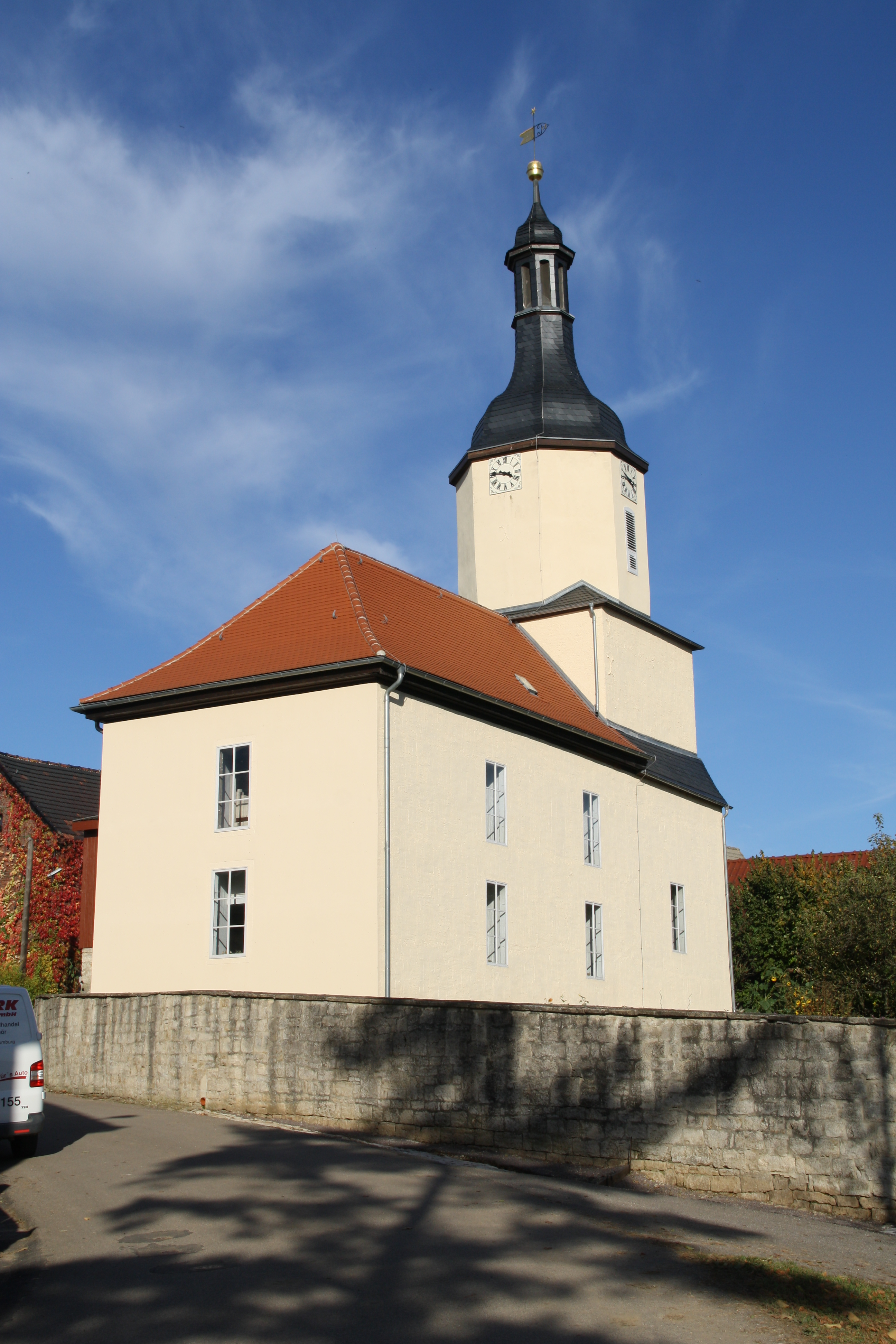 Church of Tultewitz